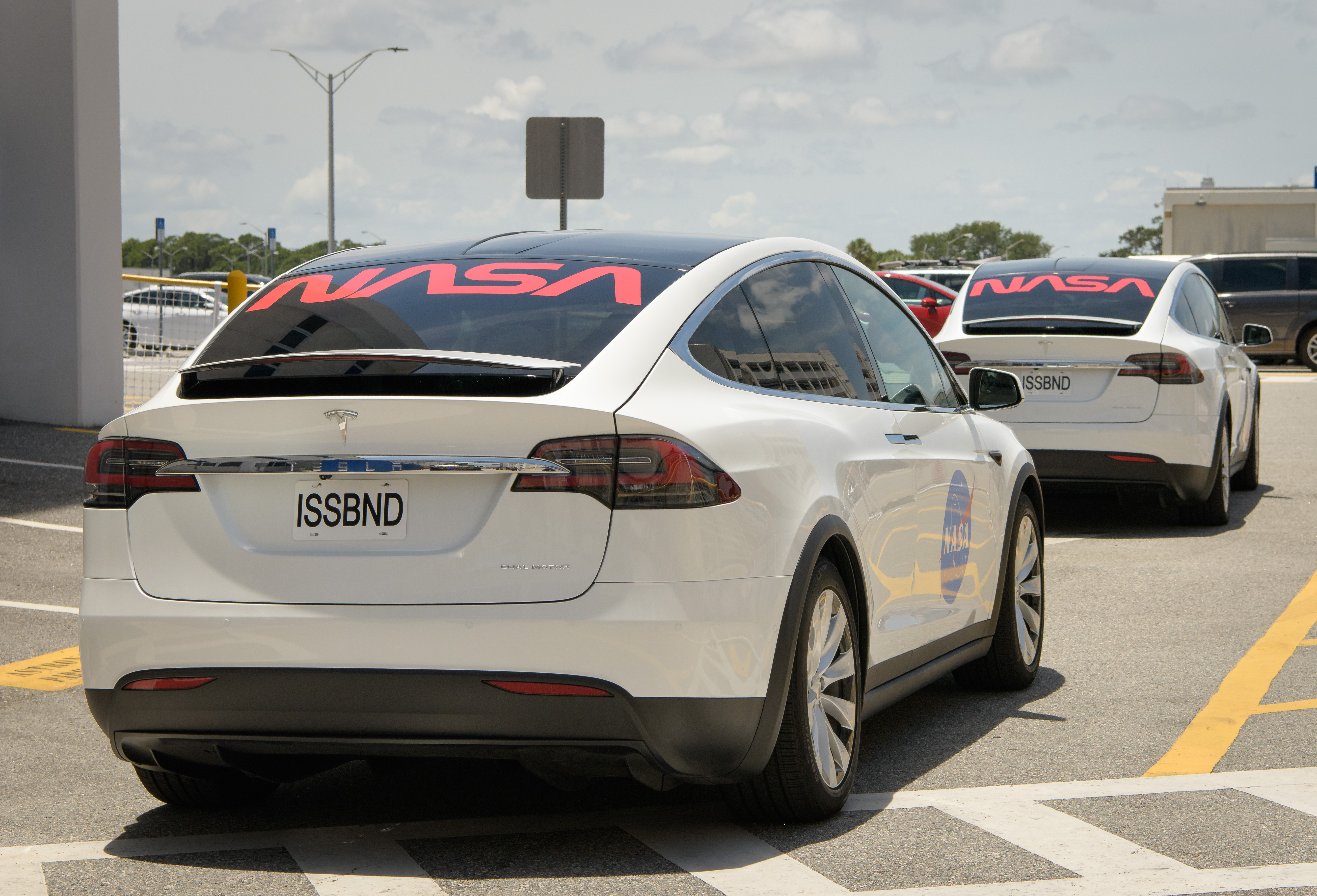 NASA astronauts Douglas Hurley and Robert Behnken depart the Neil A. Armstrong Operations and Checkout Building for Launch Complex 39A during a dress rehearsal prior to the Demo-2 mission launch, Saturday, May 23, 2020, at NASA’s Kennedy Space Center in Florida. NASA’s SpaceX Demo-2 mission is the first launch with astronauts of the SpaceX Crew Dragon spacecraft and Falcon 9 rocket to the International Space Station as part of the agency’s Commercial Crew Program. The test flight serves as an end-to-end demonstration of SpaceX’s crew transportation system. Behnken and Hurley are scheduled to launch at 4:33 p.m. EDT on Wednesday, May 27, from Launch Complex 39A at the Kennedy Space Center. A new era of human spaceflight is set to begin as American astronauts once again launch on an American rocket from American soil to low-Earth orbit for the first time since the conclusion of the Space Shuttle Program in 2011. Photo Credit: (NASA/Bill Ingalls)